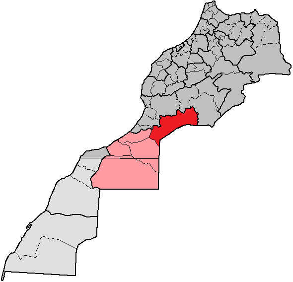 Location of the province Tata within the region Guelmim-Es Semara, Morocco. In total, Morocco has 16 regions, subdivided into 62 provinces and 13 prefectures.